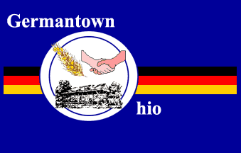 Germantown Ohio Flag (2010)